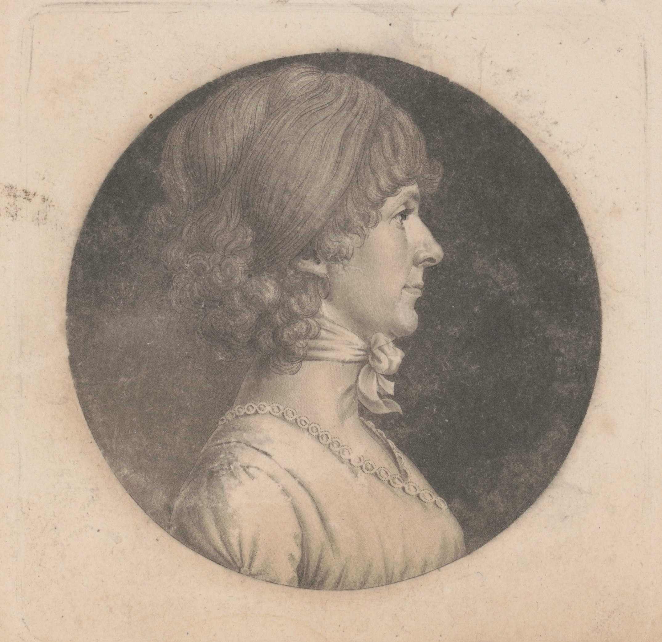 Title: Mrs. David Meade Randolph, head-and-shoulders portrait, right profile Abstract/medium: 1 print : engraving.